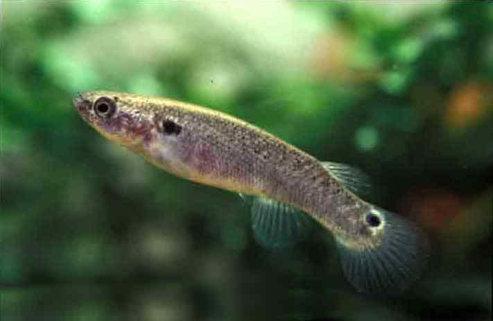 Mangrove Killifish (Kryptolebias marmoratus). Female specimen from Guadeloupe, photographed in an aquarium.